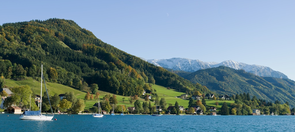 The Attersee and Höllengebirge as seen from Weyregg am Attersee